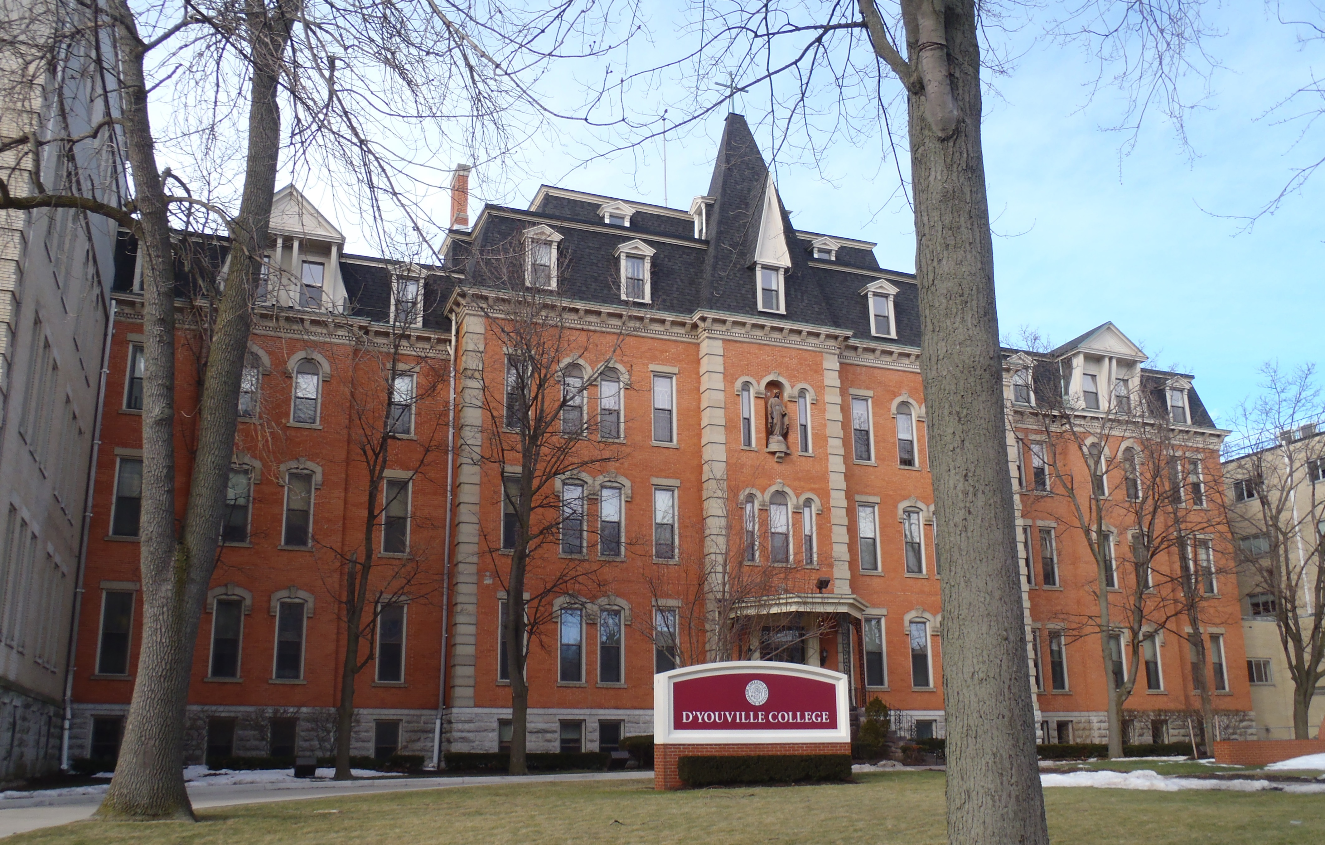 Koessler Adminstration Building, D'youville College, Porter Ave. Buffalo, NY